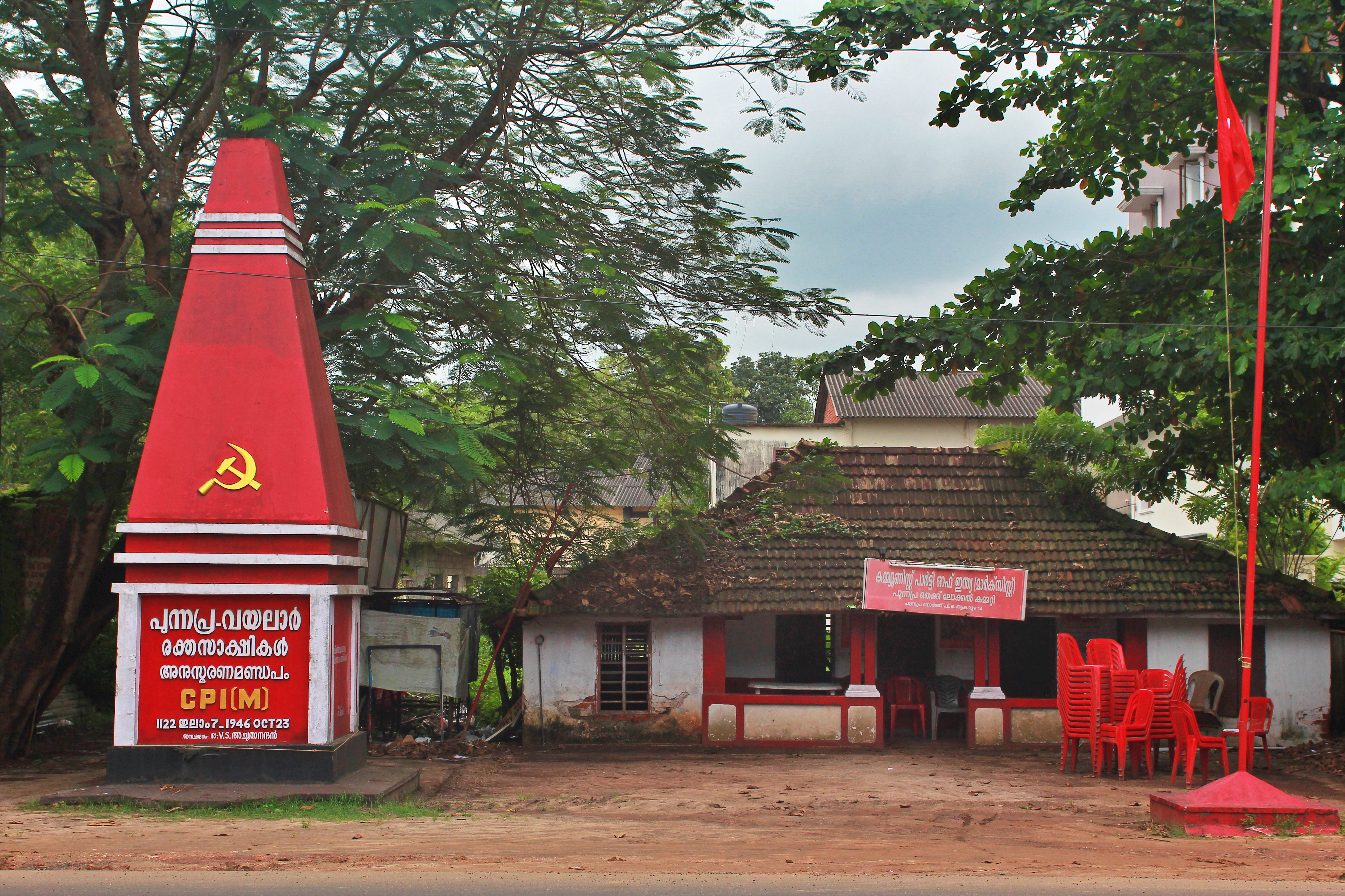 The Punnapra-Vayalar uprising martyrs memorial at Punnapra, Alappuzha. The Punnapra-Vayalar uprising (October 1946) was a communist uprising in the Princely State of Travancore, British India against the Prime Minister, C. P. Ramaswami Iyer and the state